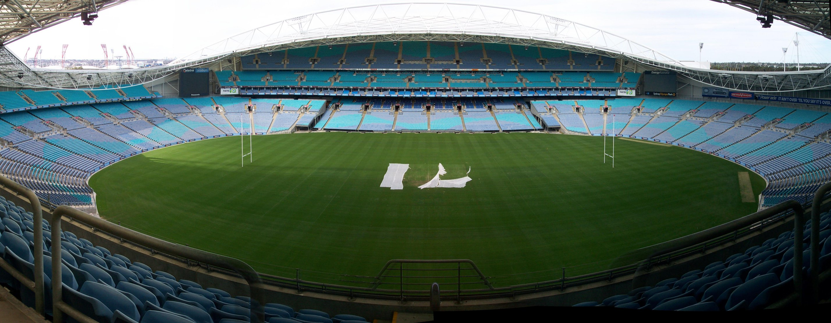 Panoramic image (composed of 6 smaller images) of Telstra Stadium (empty, during tour) in October 2005. Stadium is in oval configuration with Rugby goal posts. As a guide, the Rugby goal posts are 100 metres apart (approx. 110 yards).